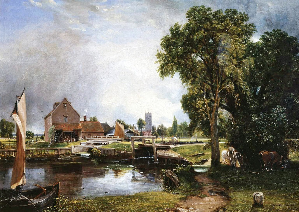 Dedham Lock and Mill